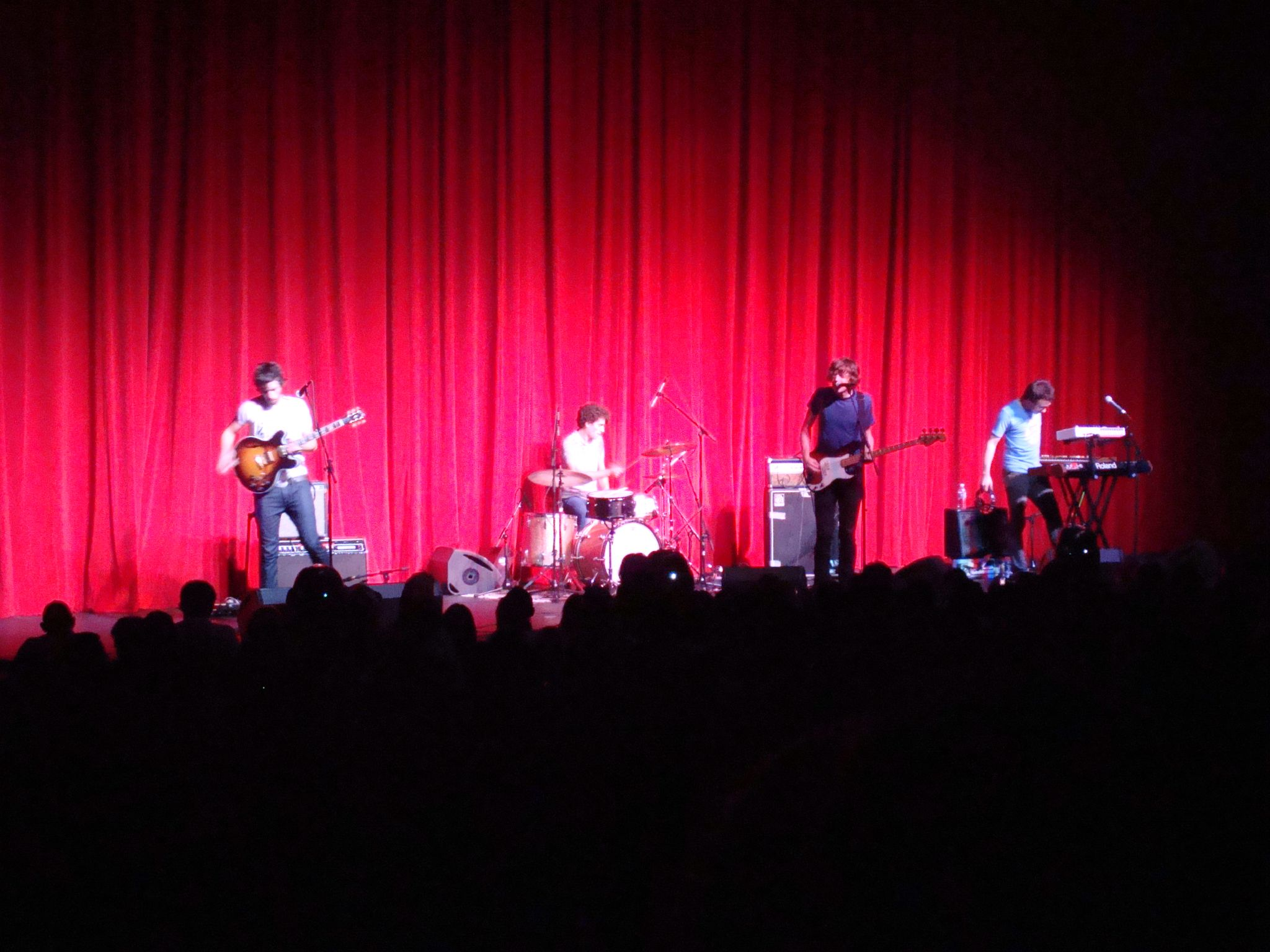 Tokyo Police Club in concert